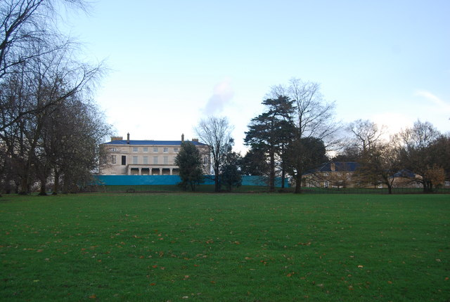 The side of Mote House